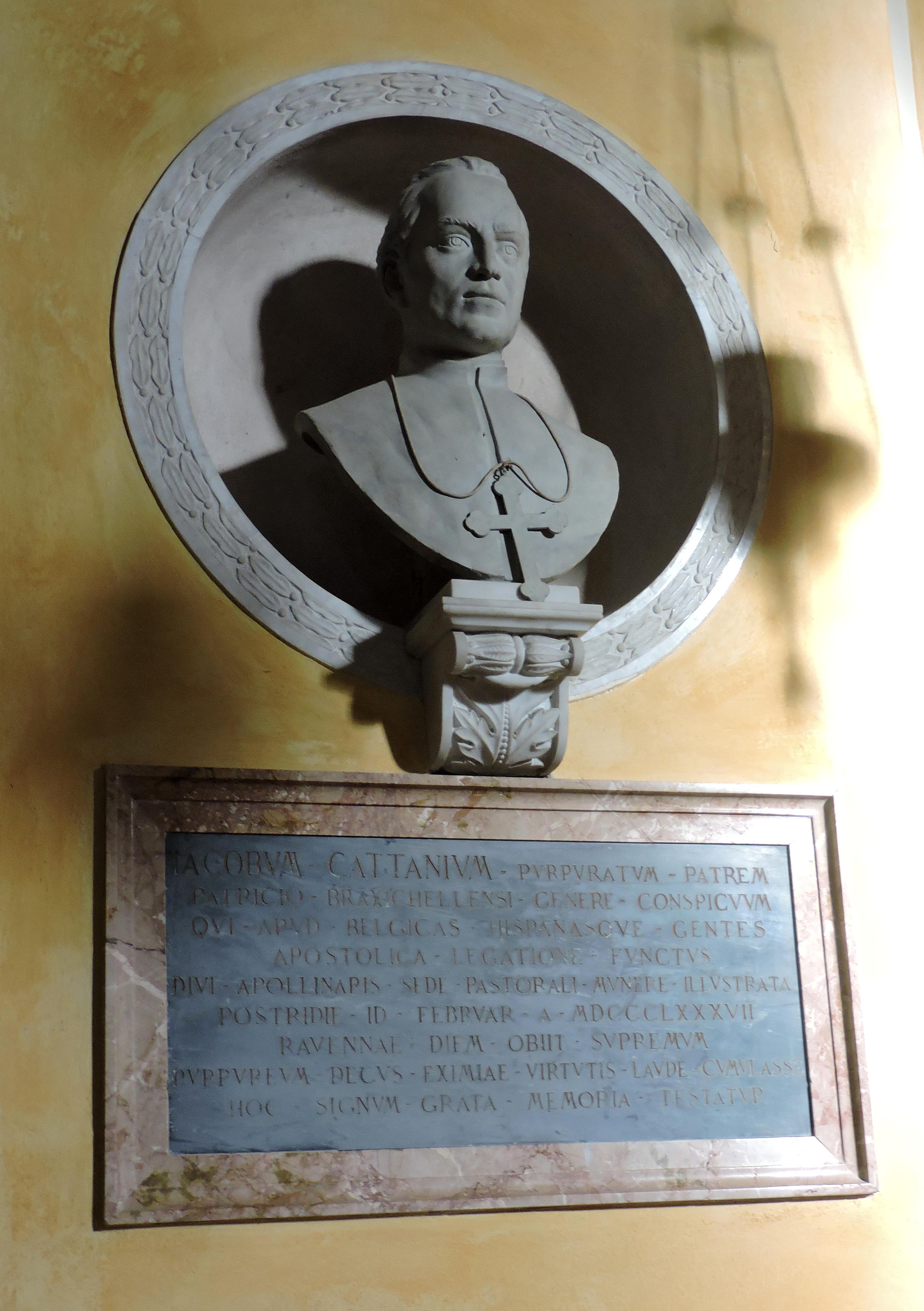 Giacomo Cattani memorial in Brisighella (RA, Italy)